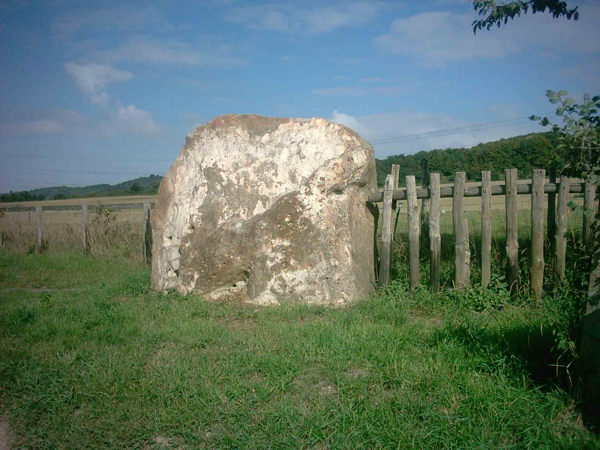 A Sarsen standing stone at Great Tottington in Kent. Taken by me 24/09/05